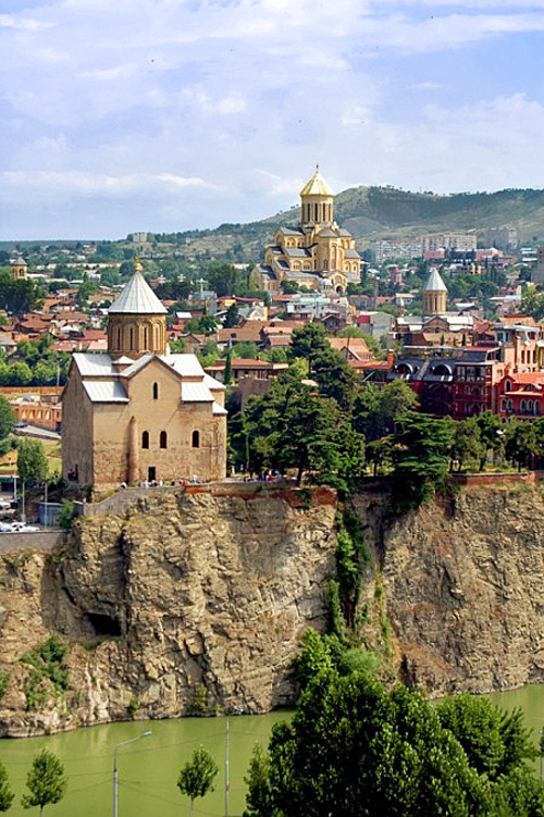 Tbilisi overview